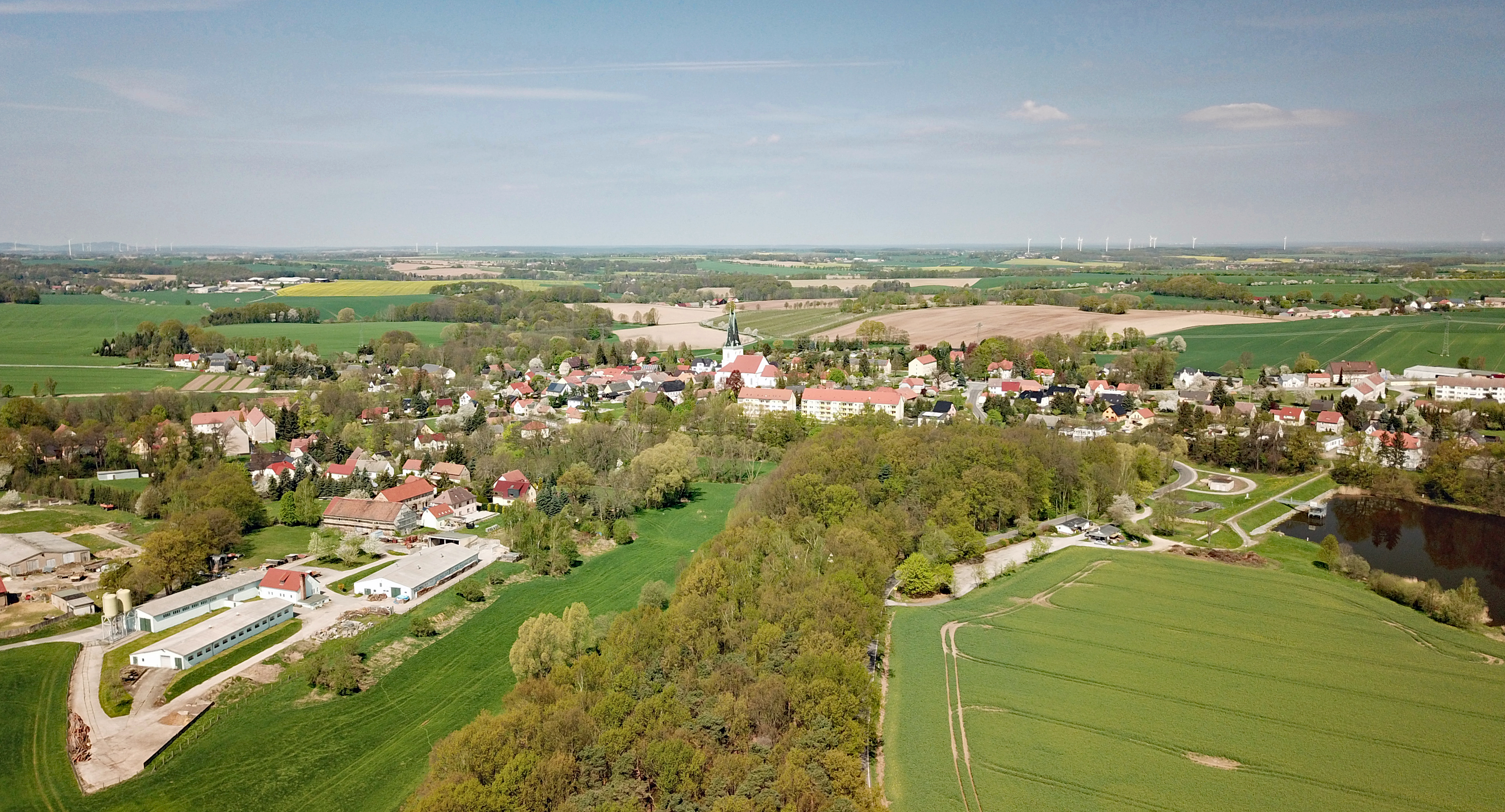 Göda, Saxony, Germany Hornjoserbsce: Powětrowy wobraz Hodźija